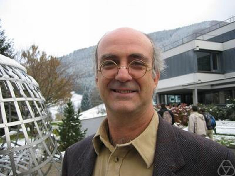 Giuseppe Buttazzo, Oberwolfach 2004